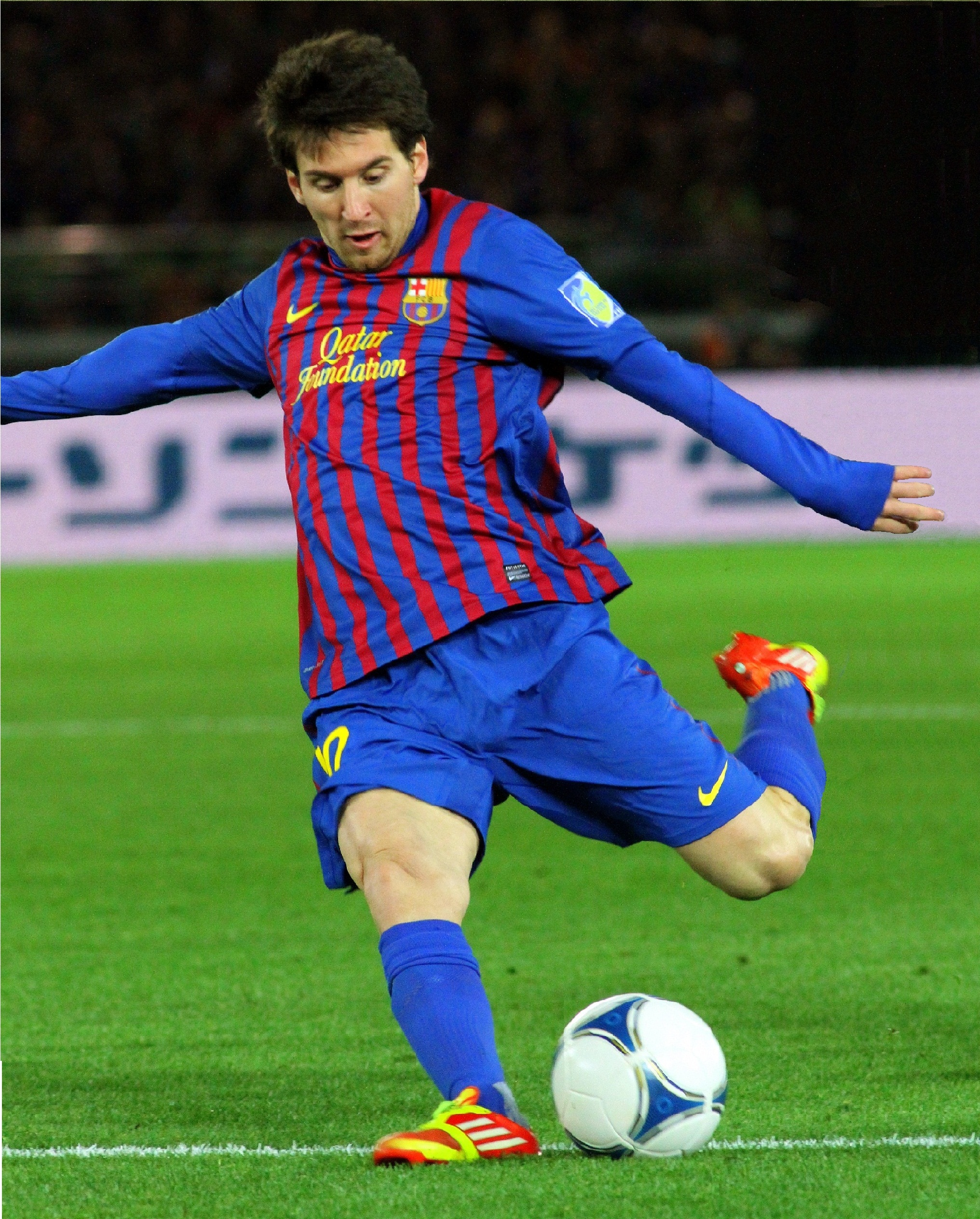 Lionel Messi, player of FC Barcelona team.